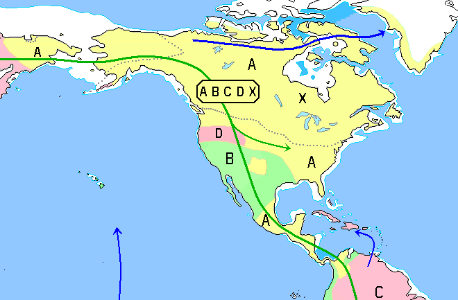 Predominant zones of haplogroup A (mtDNA)